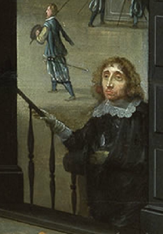 Detail of the painting of the Gallery of Cornelis van der Geest